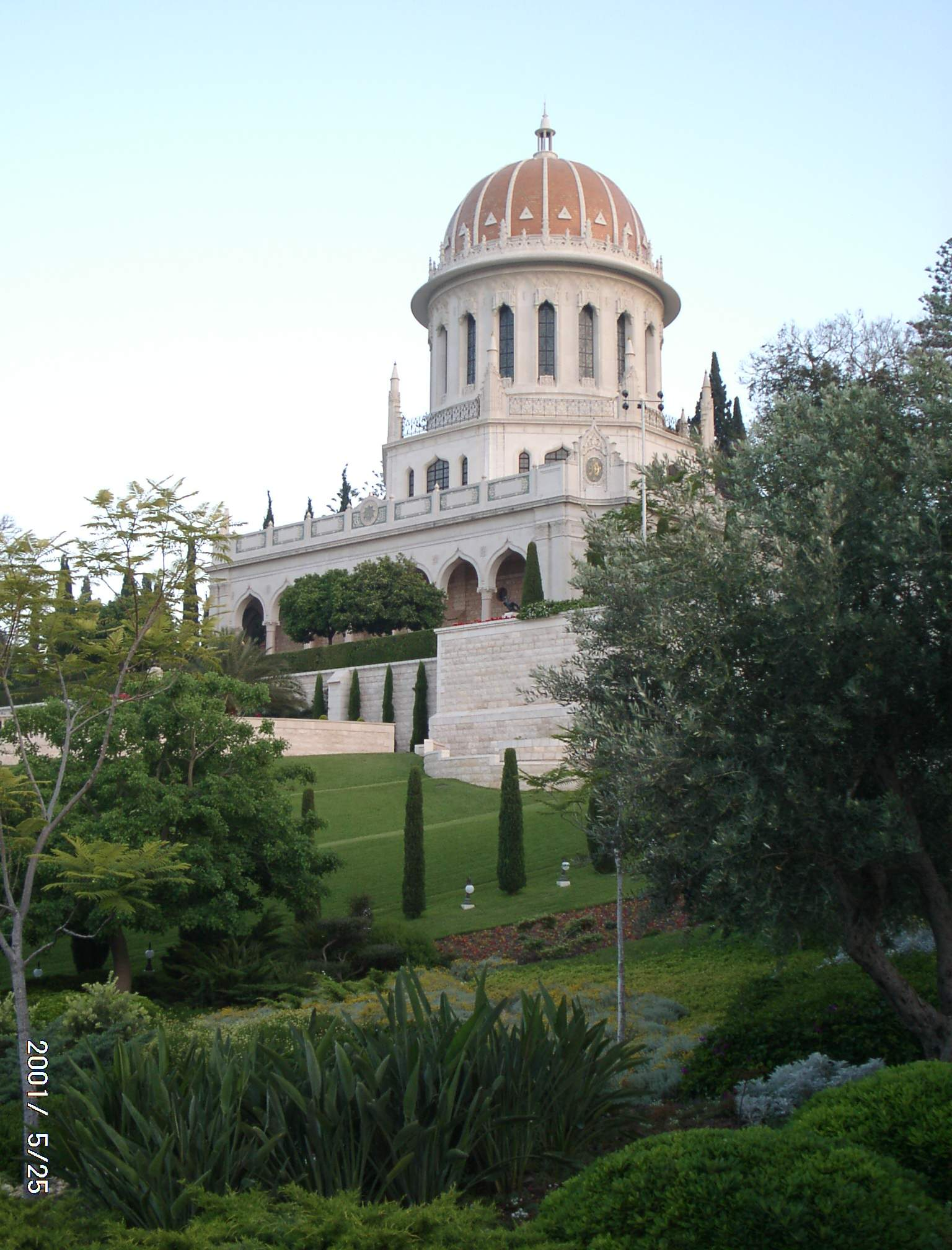 Shrine of the Báb in Haifa